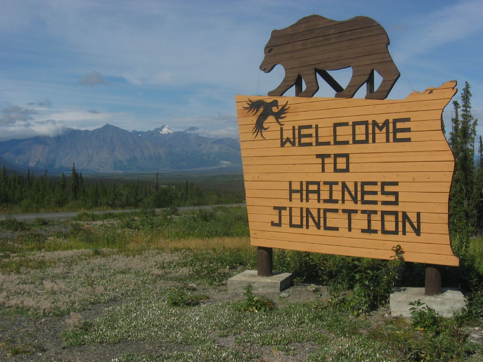 At the entrance of Haines Junction, Yukon, Canada